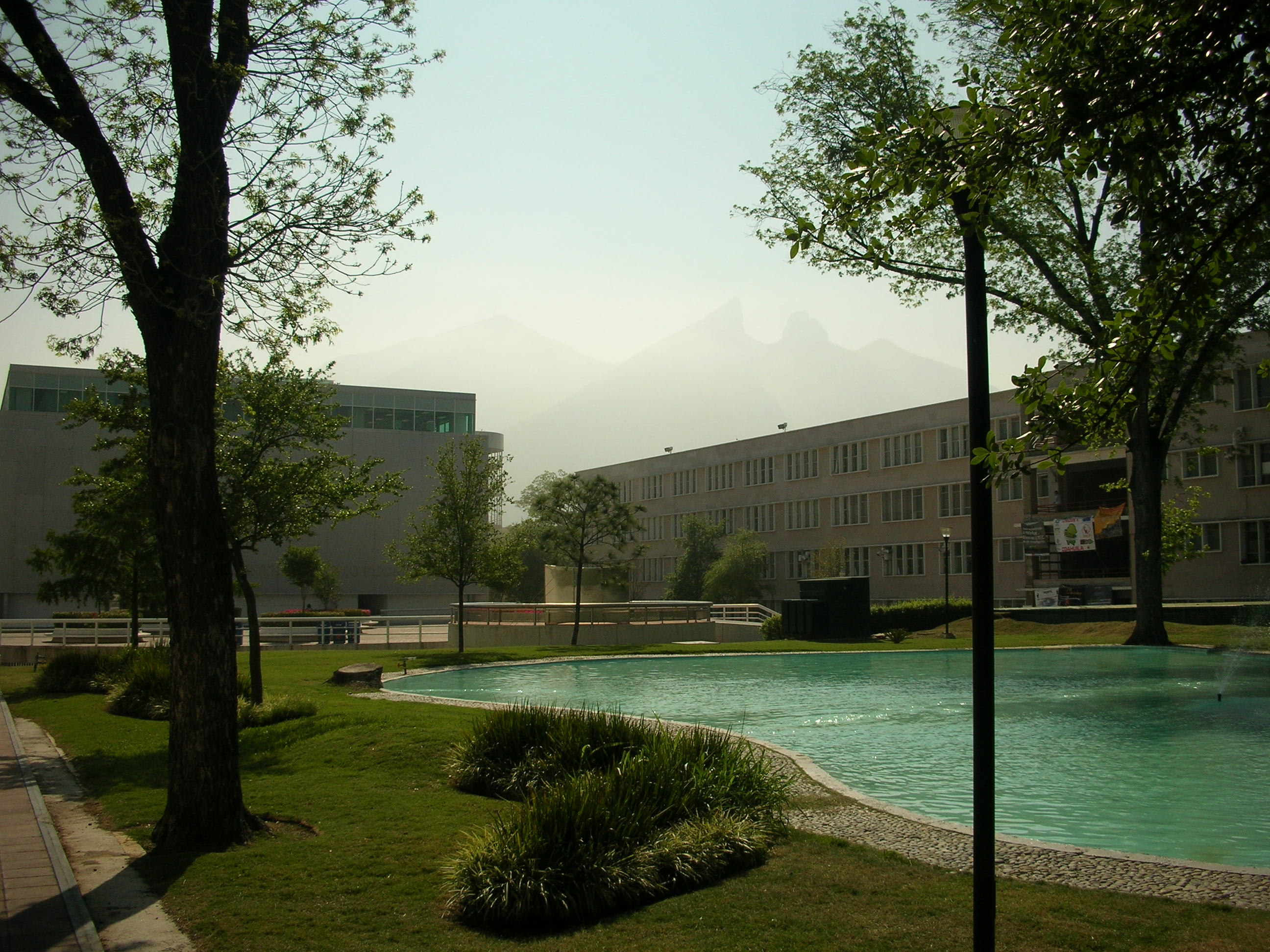 The Femsa Biotechnolgy Center (left) and classrooms at the Monterrey Institute of Technology in Mexico.